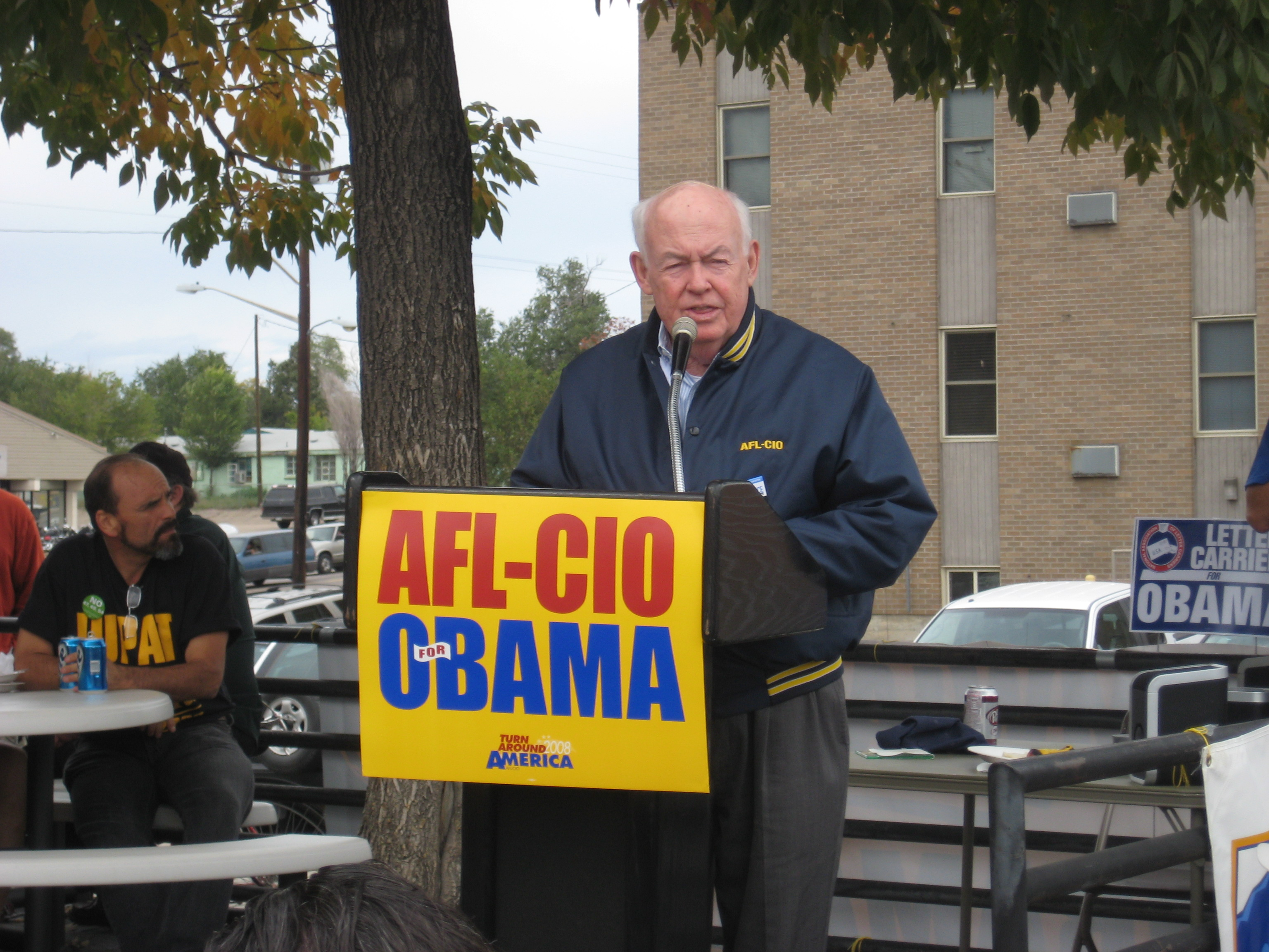 John Sweeney on Oct. 4th 2008.